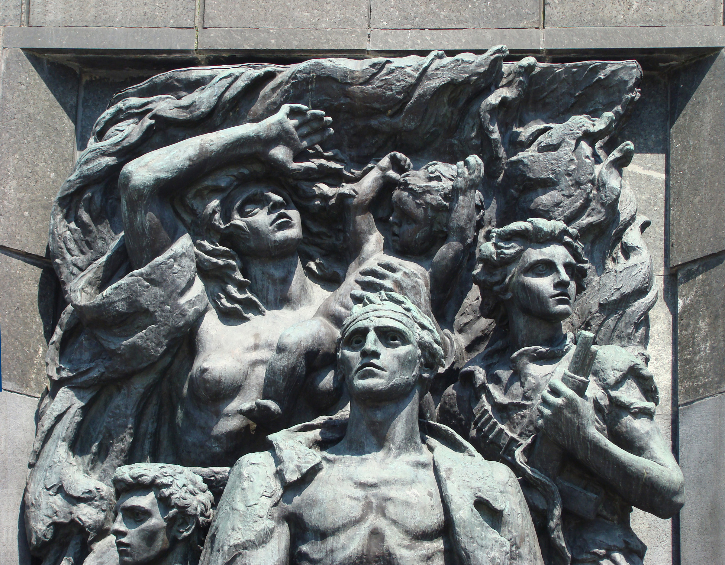 Warsaw Ghetto Uprising Monument